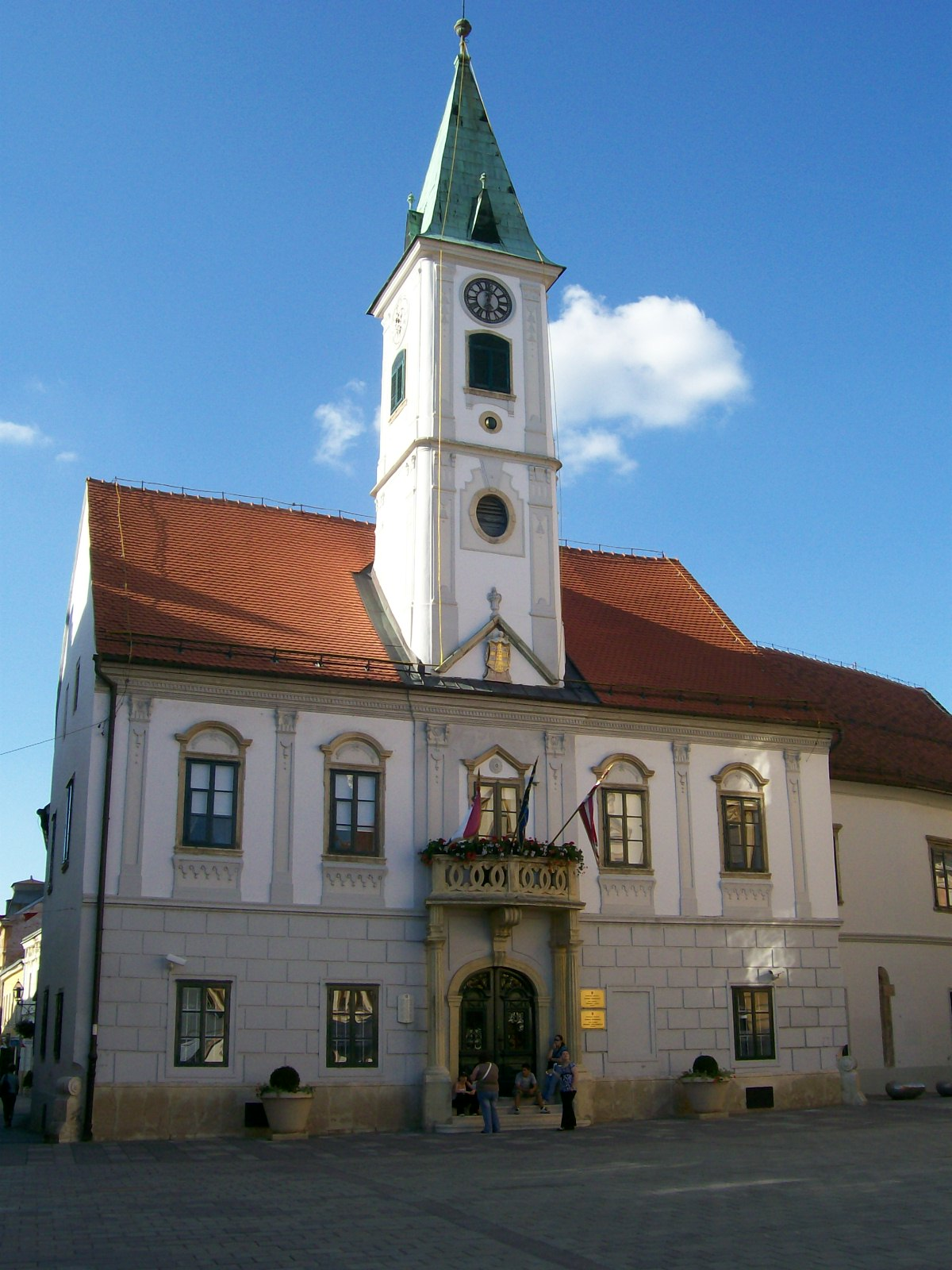 Town Hall Varaždin